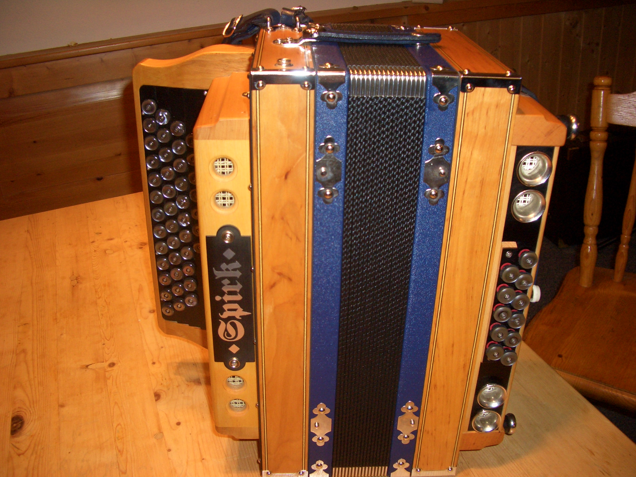 Spirk ditonic Accordion with 3 and 1/2 rows